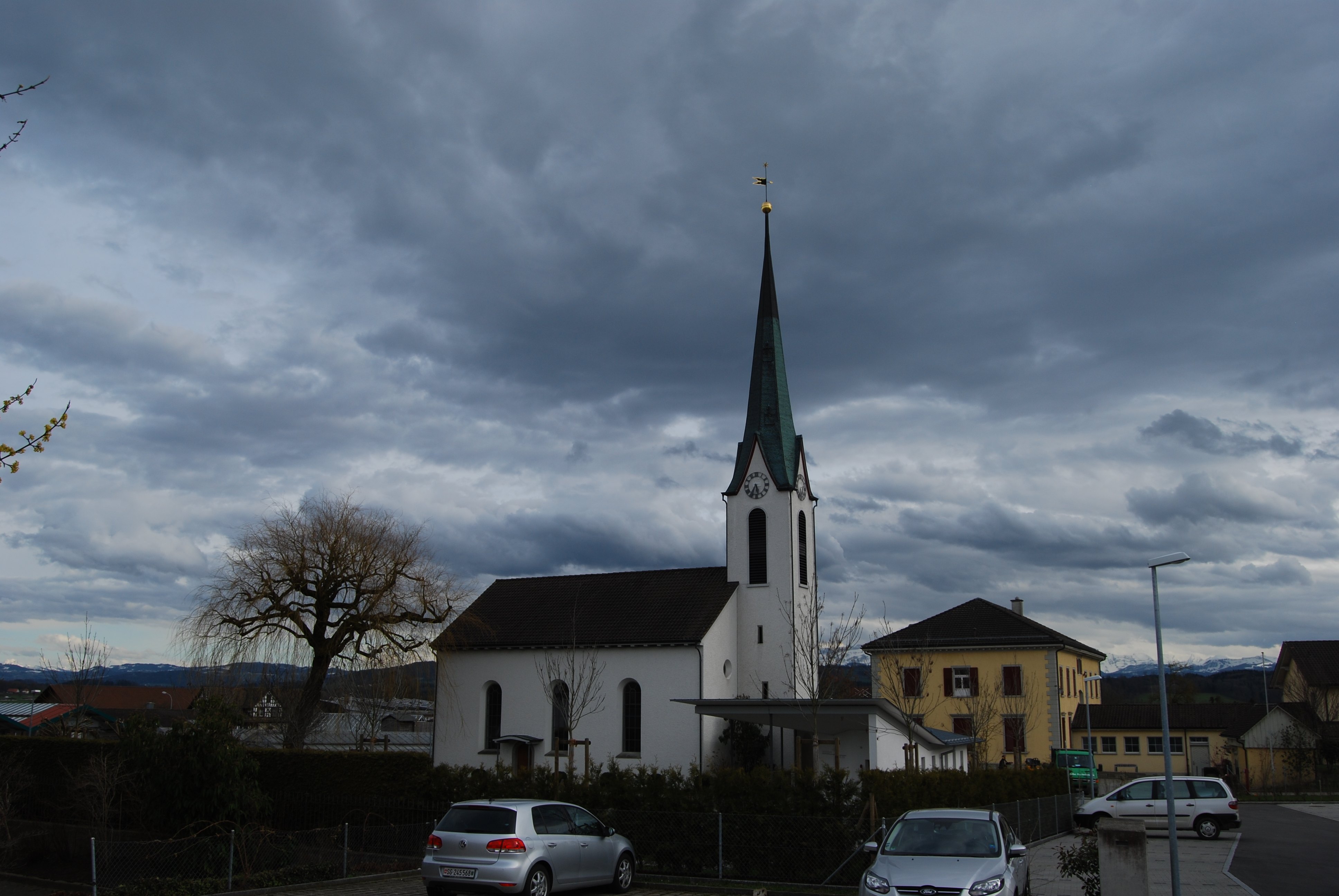 Protestant church of Zihlschlacht, canton of Thurgovia, SwitzerlandEsperanto: Reformita preĝejo de Zihlschlacht, Kantono Turgovio, Svislando